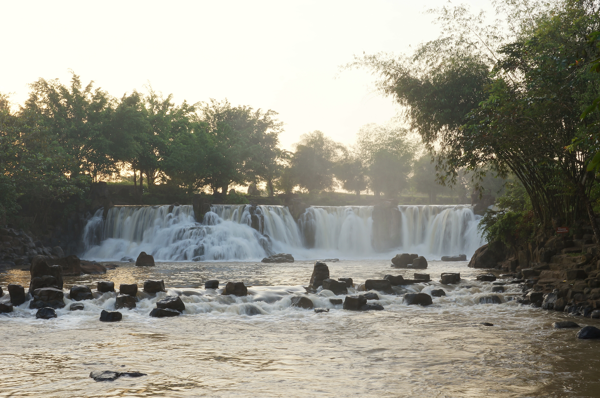 Giang Dien Waterfall